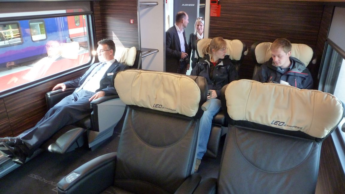 Interior of LEO Express EMU 94 54 1 480 003-3 (Premium class) at InnoTrans 2012